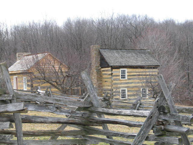 somerset historical village